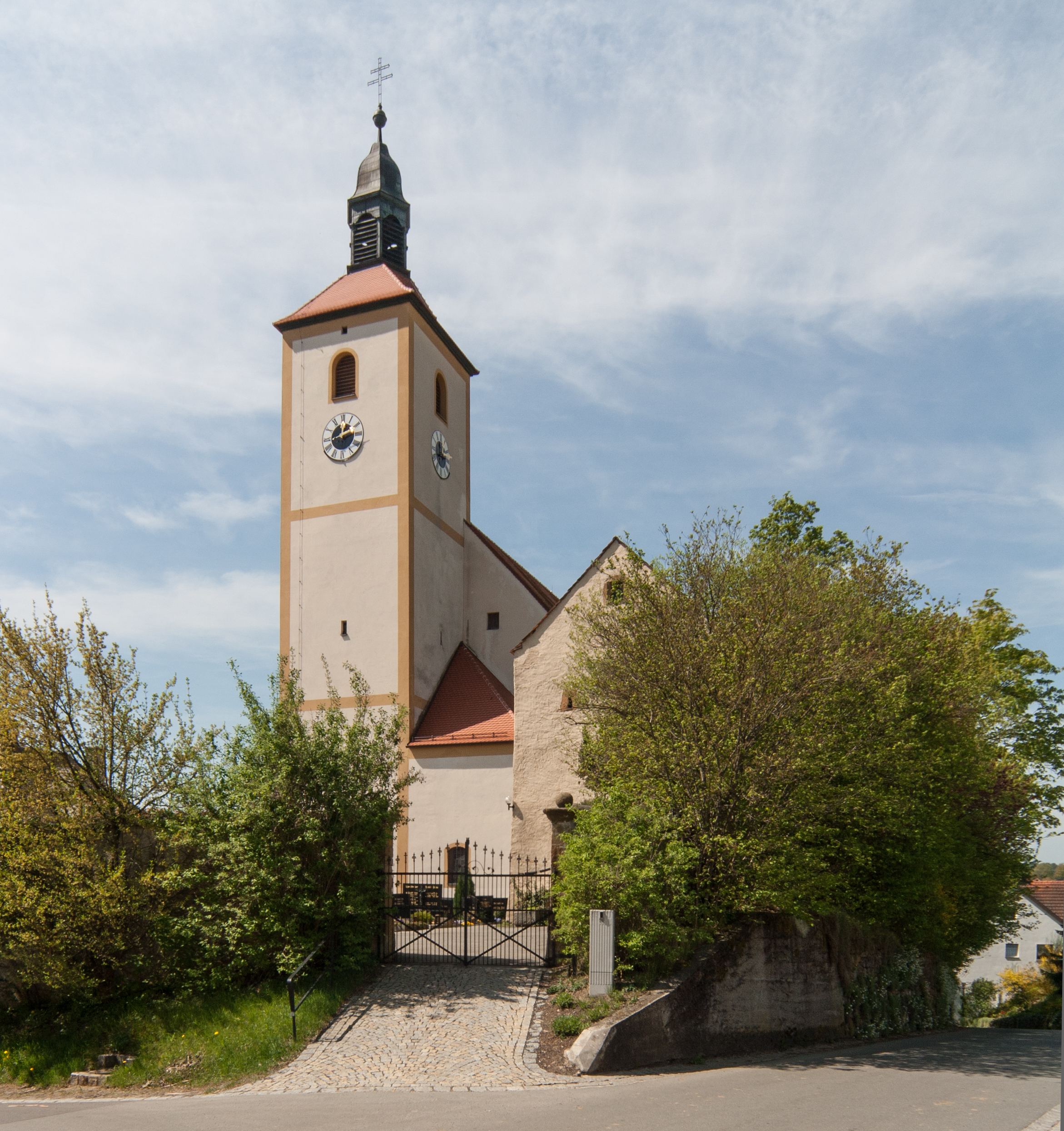 Church St. Michael, Hirschau-Ehenfeld, Bavaria